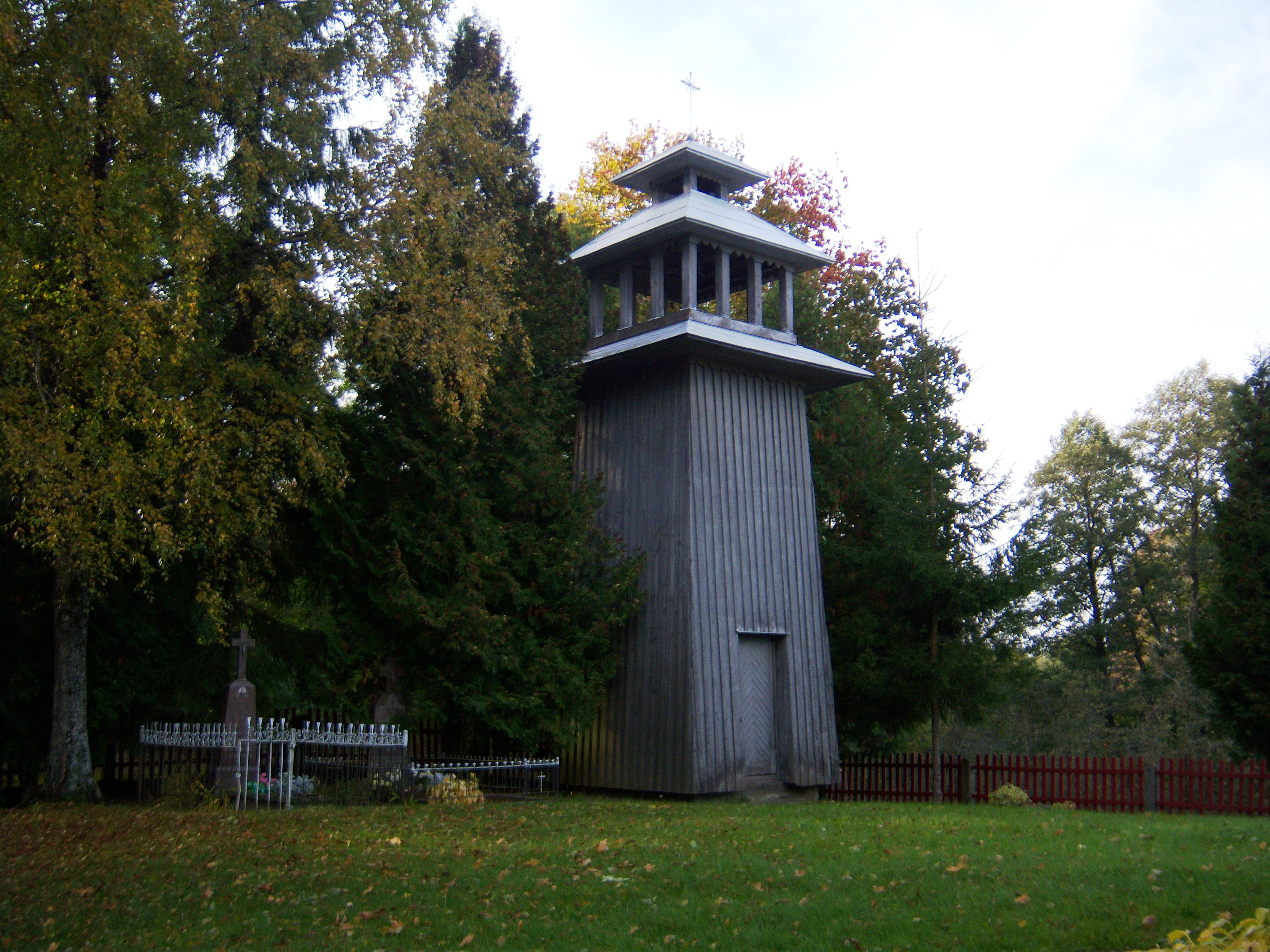 Church bell tower, Alksninė, Vilkaviškis District, Lithuania